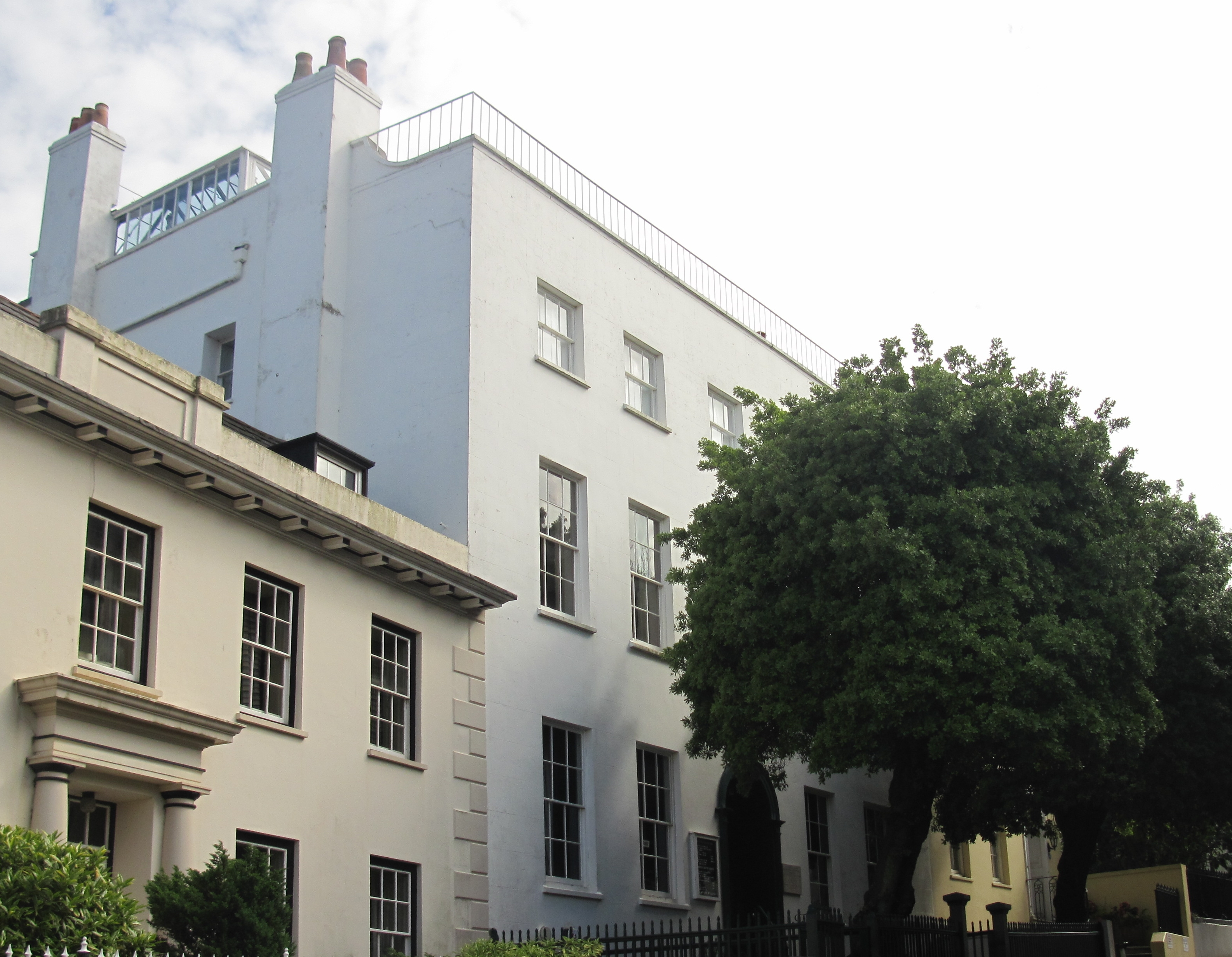 Hauteville House